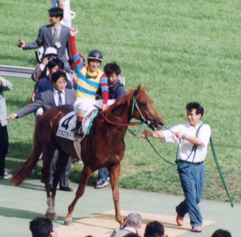 Agnes Flight